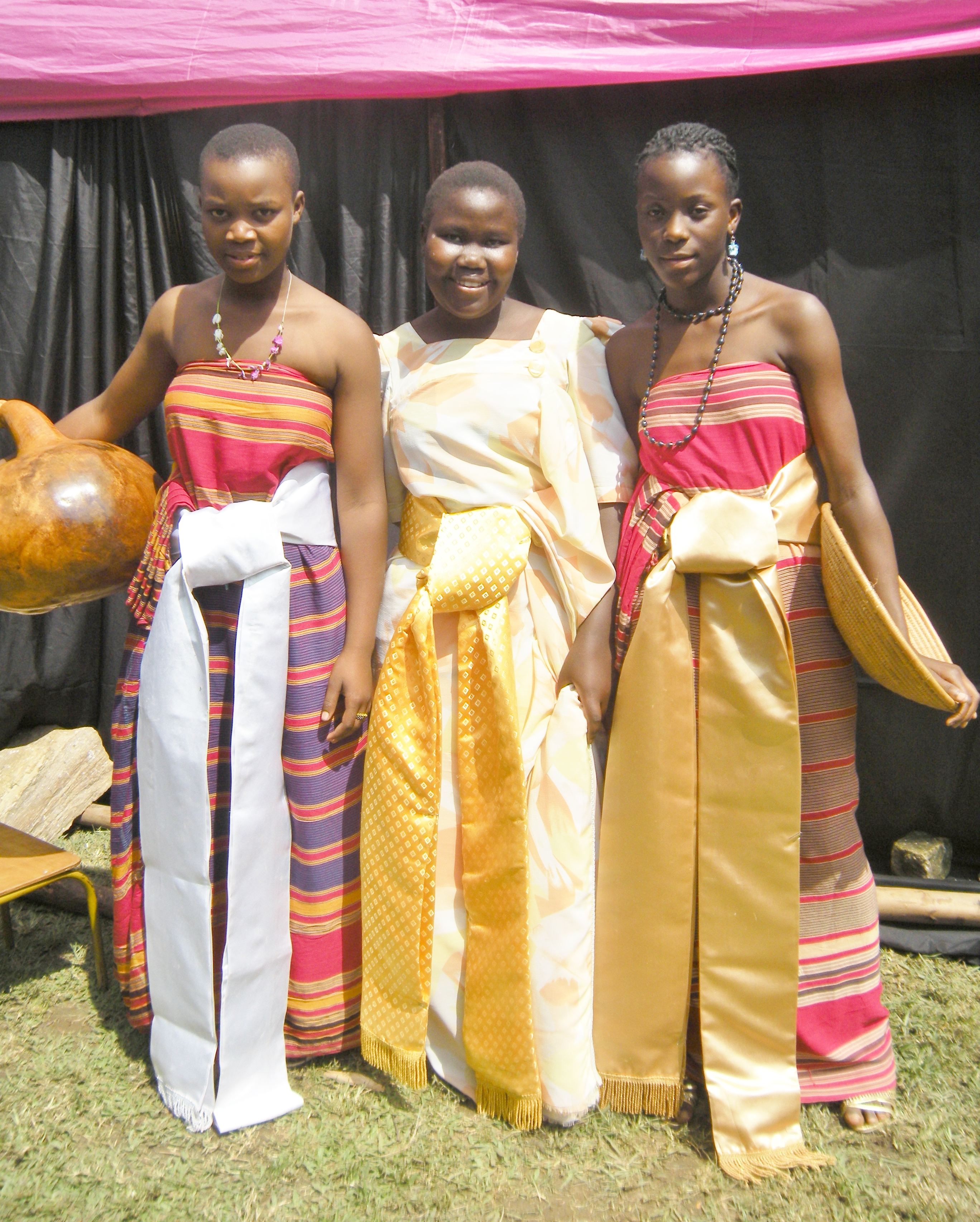 The Busuuti and Kikoyi and traditional attire for women from the Baganda tribe of Central Uganda. Commonly worn at traditional wedding ceremonies. This is an image of Cultural Fashion or Adornment from Uganda